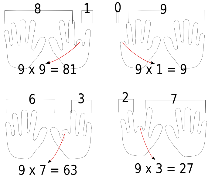 Multiplication 9 with both hands